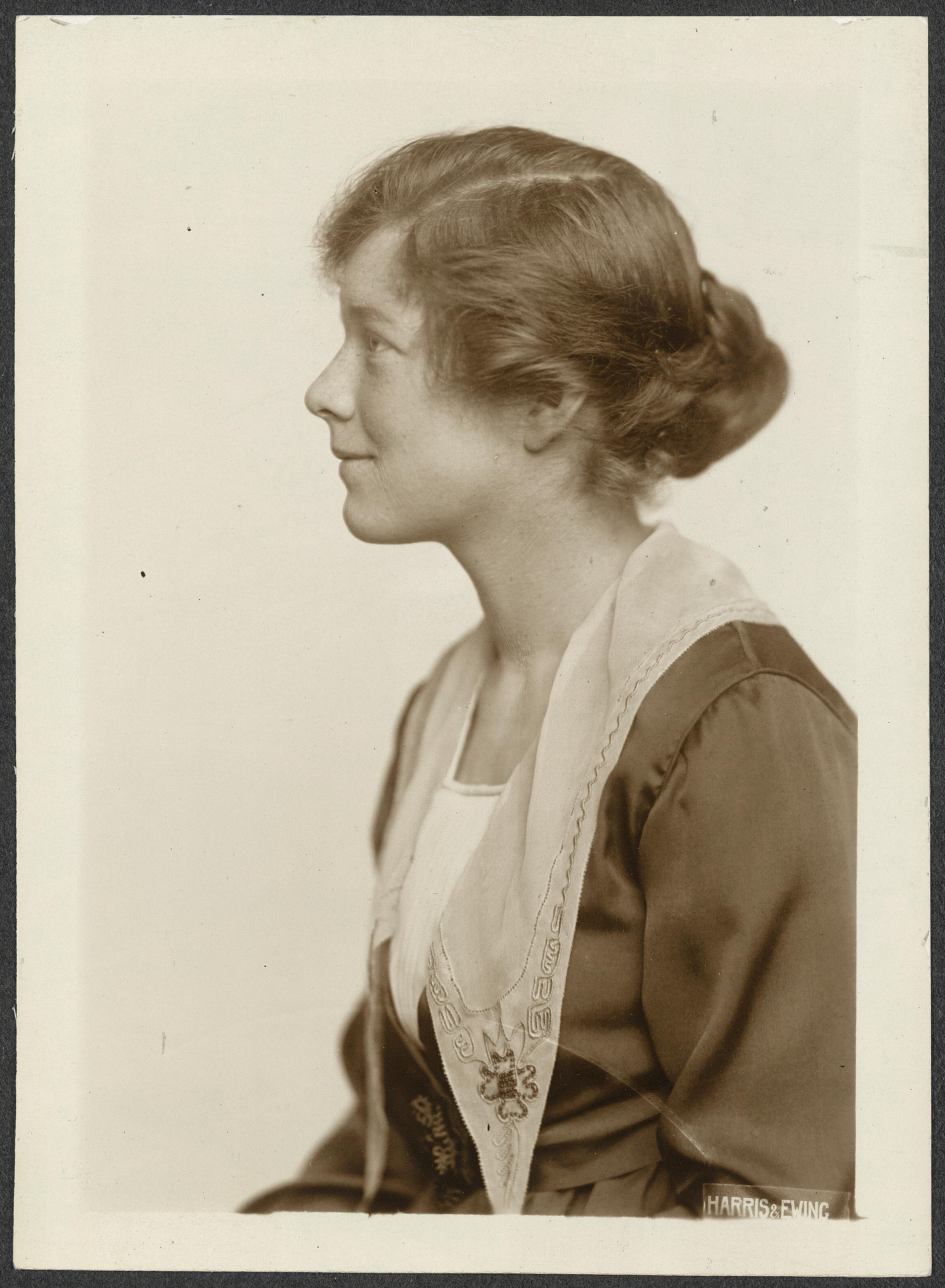 Summary: Formal portrait, head and chest, left profile, Jessica Granville-Smith, wearing dress with open neck, large collar, and wide embroidered or patterned lapels.